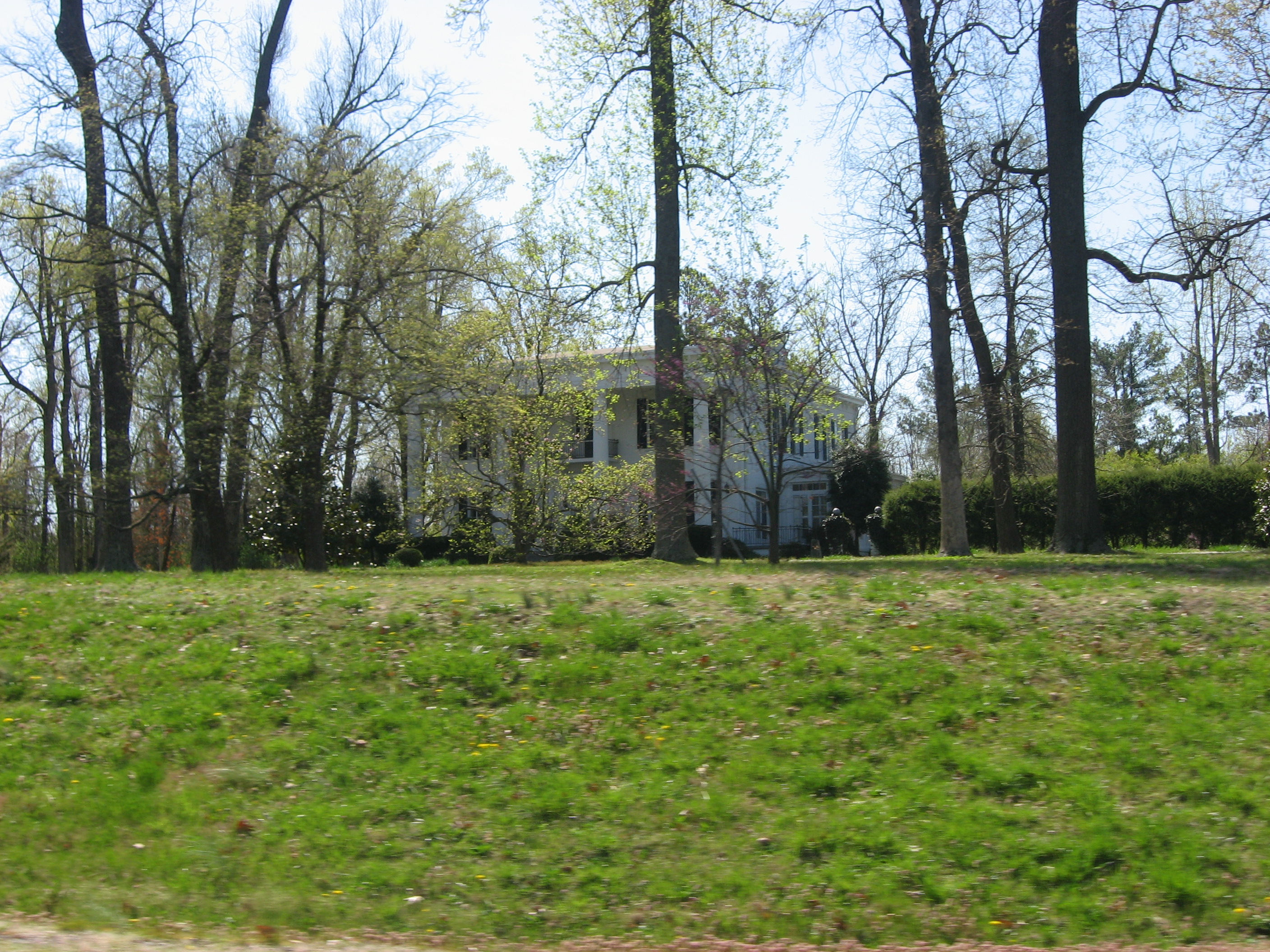 Front of Kenmil Place, located at 4300 Alben Barkley Drive (U.S. Route 62) in Paducah, Kentucky, United States. Built in 1923, it is listed on the National Register of Historic Places.